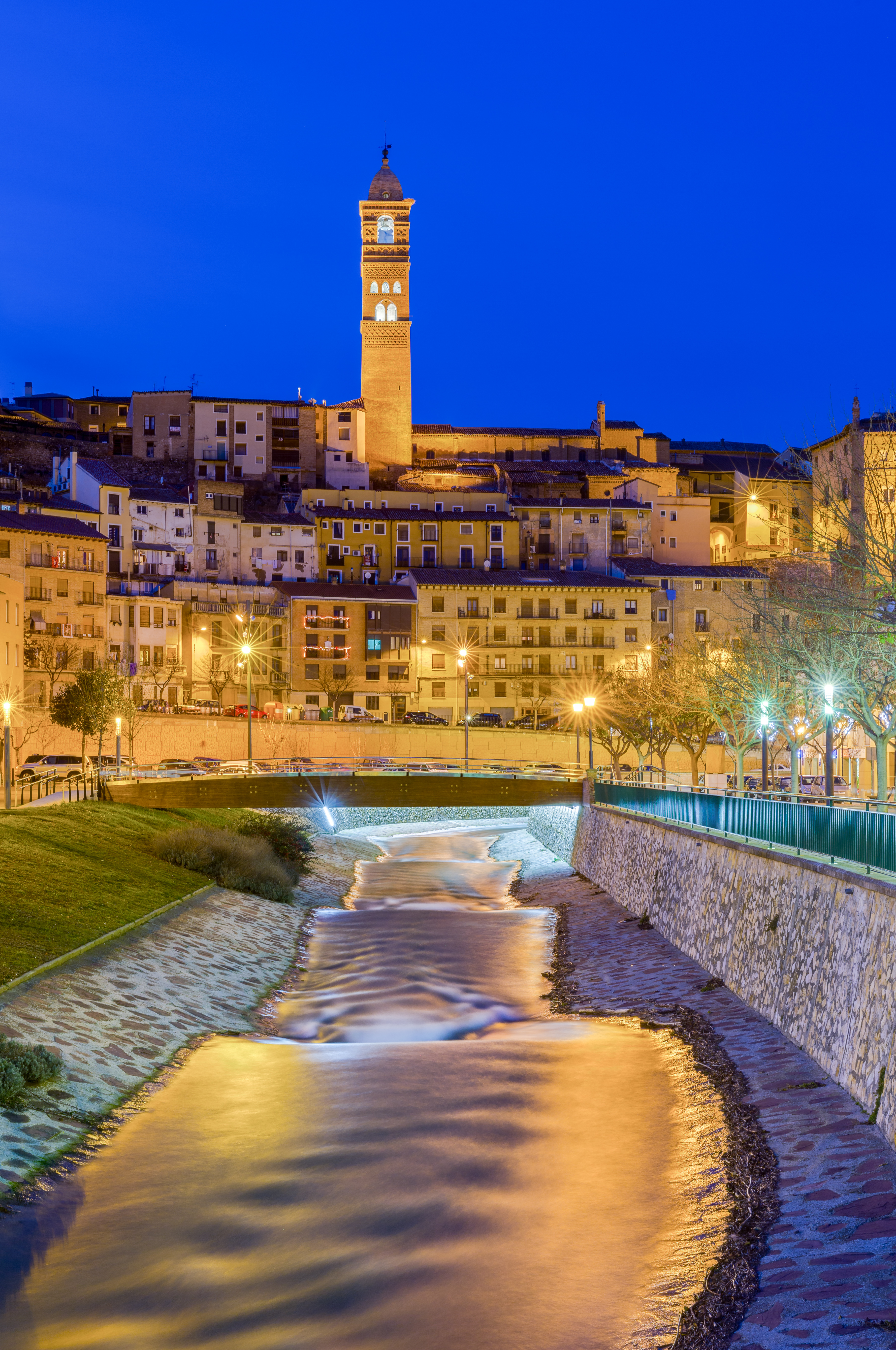 View of the old city of Tarazona with the tower of St María Magdalena church standing out, Aragón, Spain.